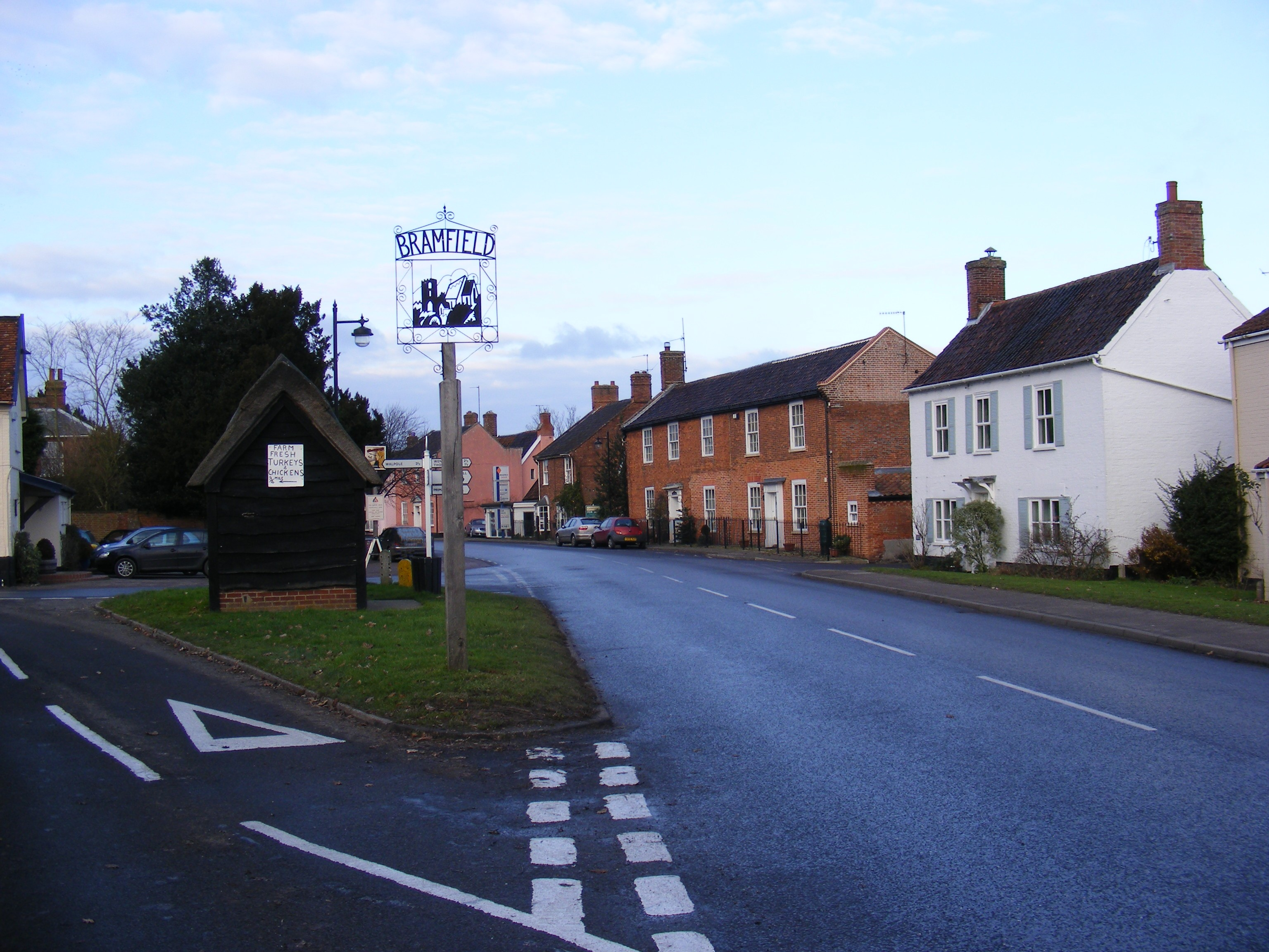 A144 The Street, Bramfield & Village Sign Looking towards Halesworth